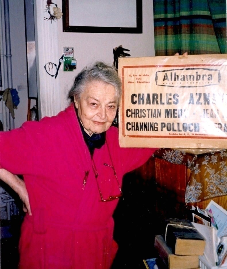 The photo presents Wiera Gran, a singer, at her home in Paris, taken on November 11, 2003 by Jerzy Placzkiewicz. Ms Gran is holding one of her posters. It is from her Alhambra Cabaret performances. On that occasion Ms Gran presented 17 posters of her artistic activity both in Poland and in France to Mr Płaczkiewicz.